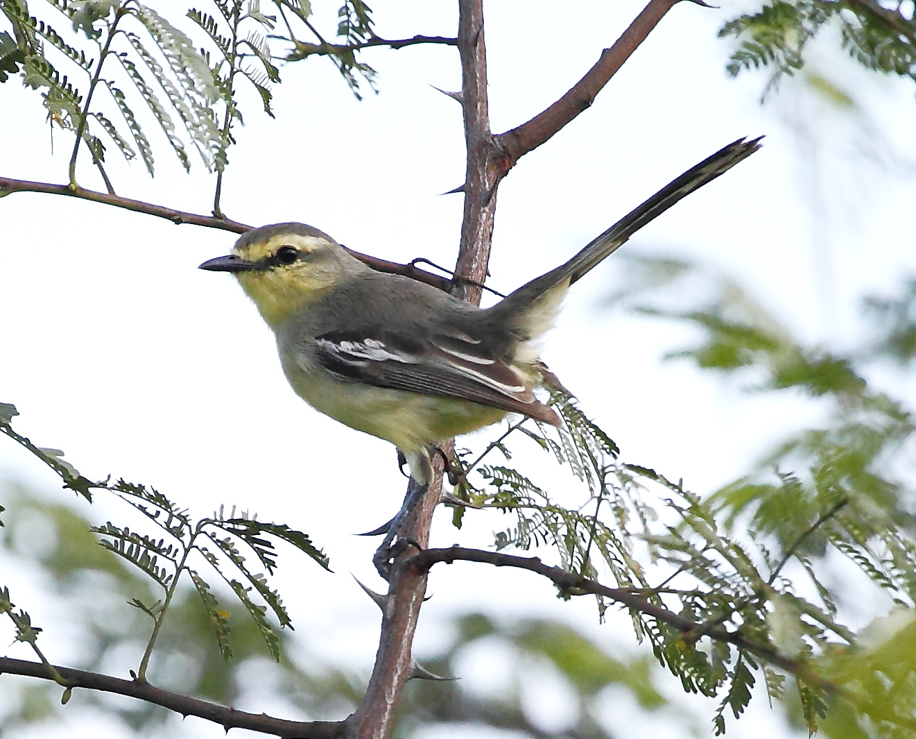 Lesser wagtail tyrant at Potengi - Ceará - Brazil